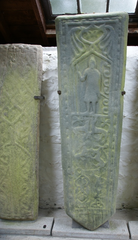 Kilmodan Sculptured Stones, Clachan of Glendaruel, Argyll and Bute, Scotland. Grave slab no. 8-9. Loch Awe school.